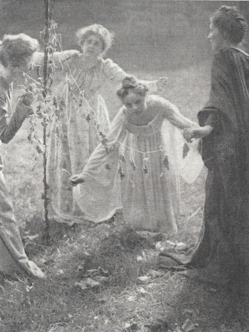 The May Pole